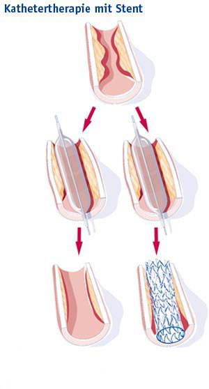 Cardiovascular disease: PAD therapy with stenting